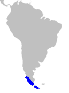 Plant family Philesiaceae (without Lapageria) distribution map